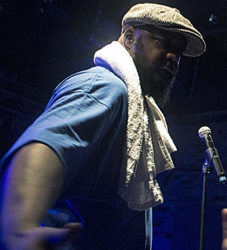 Rapper Sean Price performs at the Come Up Show sixth anniversary party in London, Ontario on April 21, 2013.